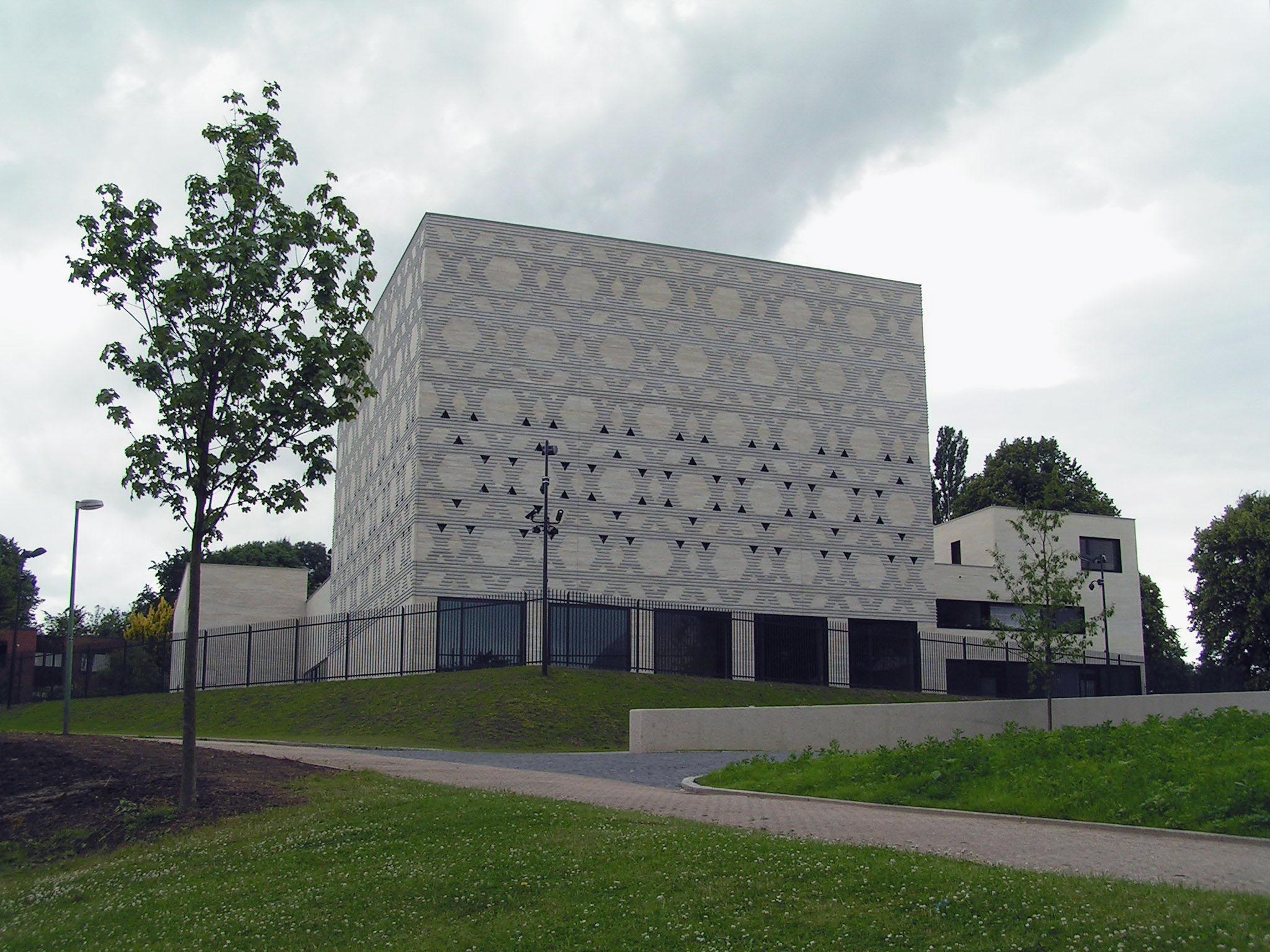 Die neue Bochumer Synagoge, eingeweiht Dezember 2007 : The new Bochum Synagogue, opened in 2007 : De nieuwe synagogue van Bochum : Synagoga Bochum Source: own work Date: June 2008, Bochum, Germany Author: Maschinenjunge Licence: GFDL, cc-by 3.0